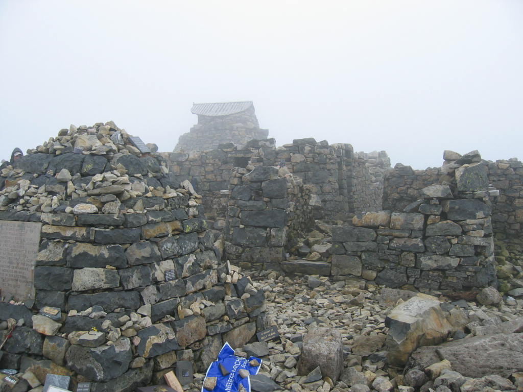 Ruins of the observatory on the summit of Ben Nevis.